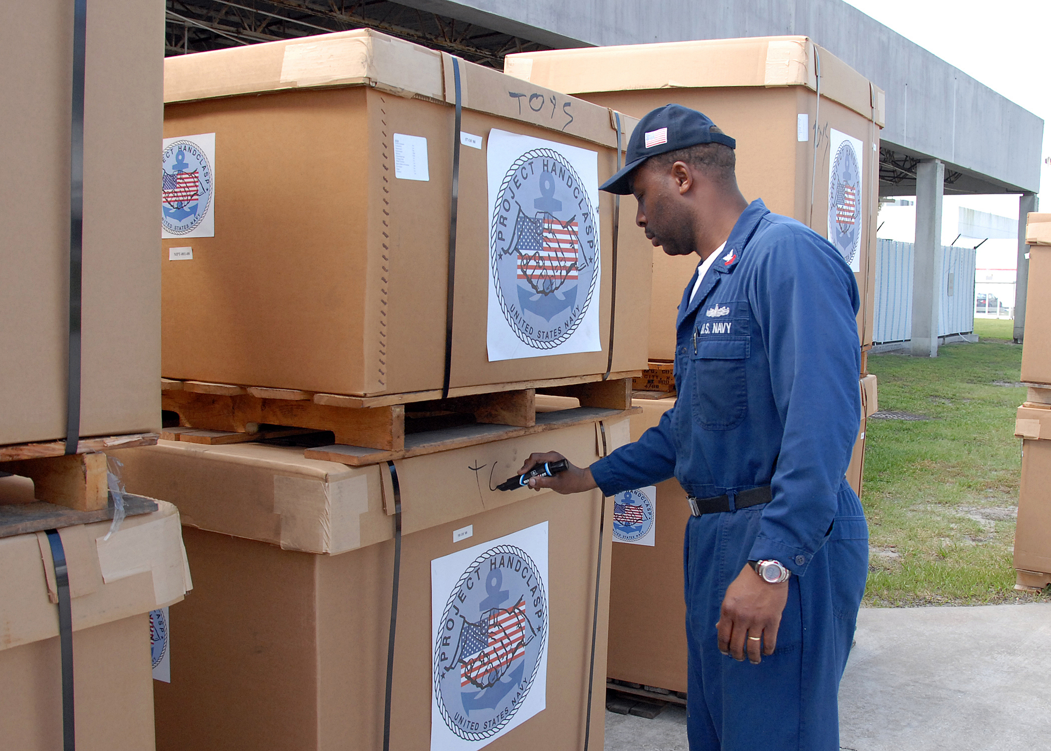 MAYPORT, Fla. (Aug. 11, 2008) Culinary Specialist 2nd Class Paul Thomas, assigned to Commander, Task Force (CTF) 43, labels a box of Project Handclasp humanitarian aid supplies before storing it in the CTF-43 warehouse. A semi-truck delivered 88 pallets of Project Handclasp toys, hygiene items, and medical supply boxes to the CTF 43 warehouse in Mayport, where the items will be stored until they are loaded onto ships deploying to Latin America. The San Diego-based Project Handclap is a worldwide humanitarian and goodwill program that collects donations from various private-sector organizations and companies, delivered to people in need by the U.S. military. (U.S. Navy photo by Mass Communication Specialist 3rd Class Alan Gragg/Released)